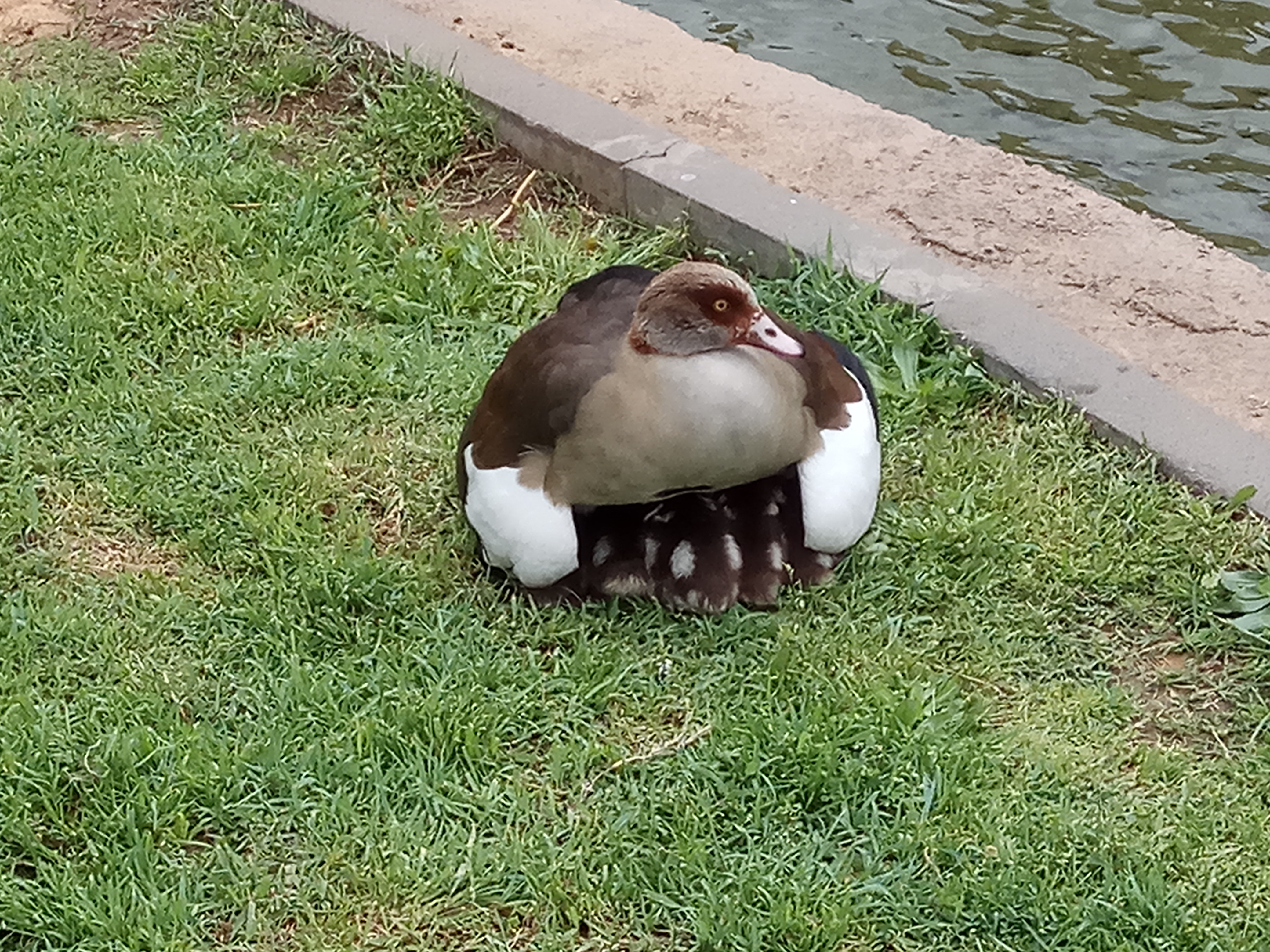 Egyptian Goose